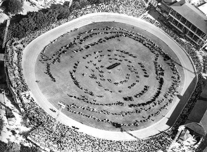 Aerial view of the grand parade of livestock at the Royal National Show, Brisbane. (The Royal National Show is also known as the RNA show or the EKKA)